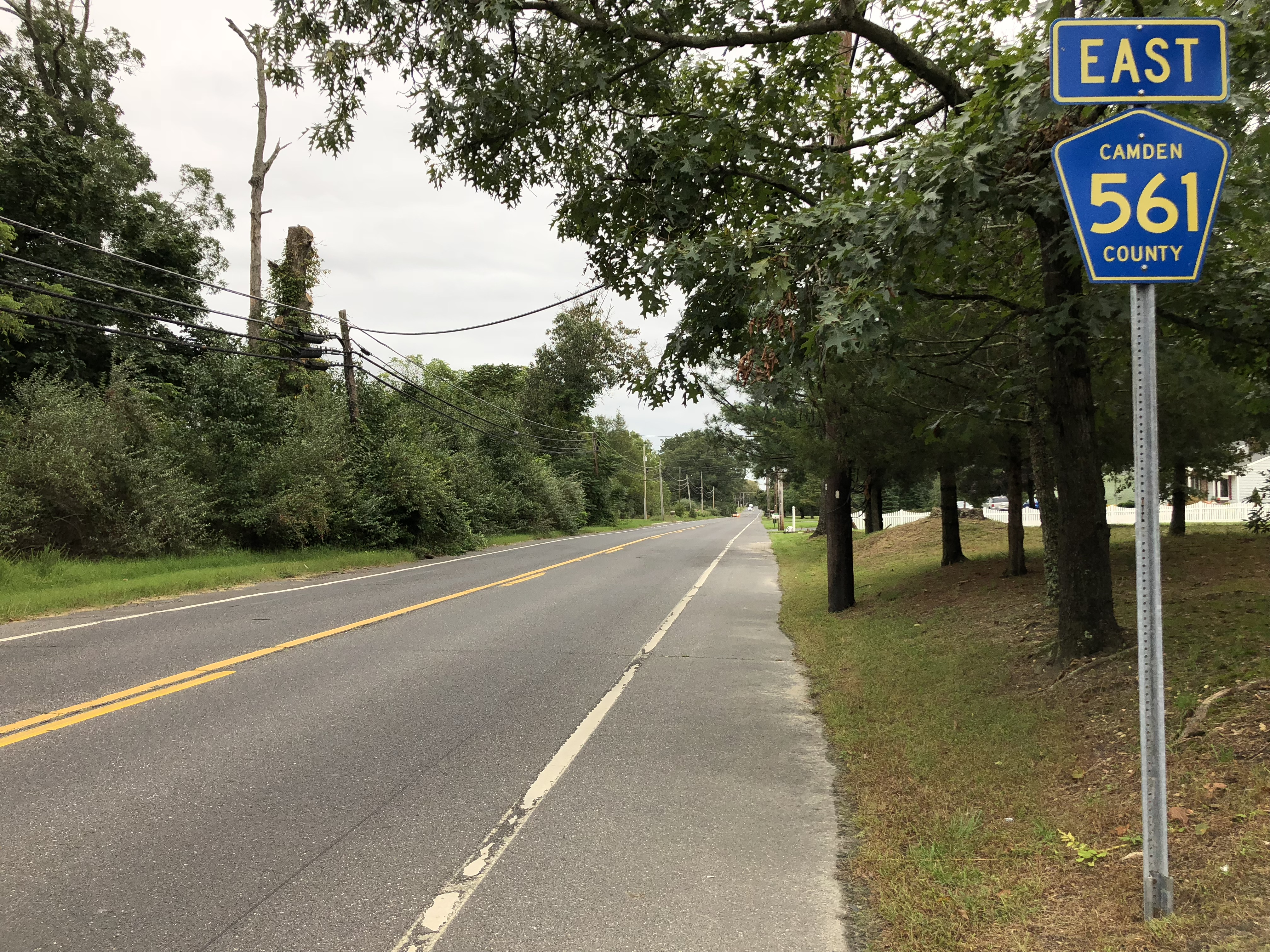 View south along Camden County Route 561 (Egg Harbor Road) just south of New Jersey State Route 143 (Spring Garden Road) and Camden County Route 726 (Hay Road) in Winslow Township, Camden County, New Jersey